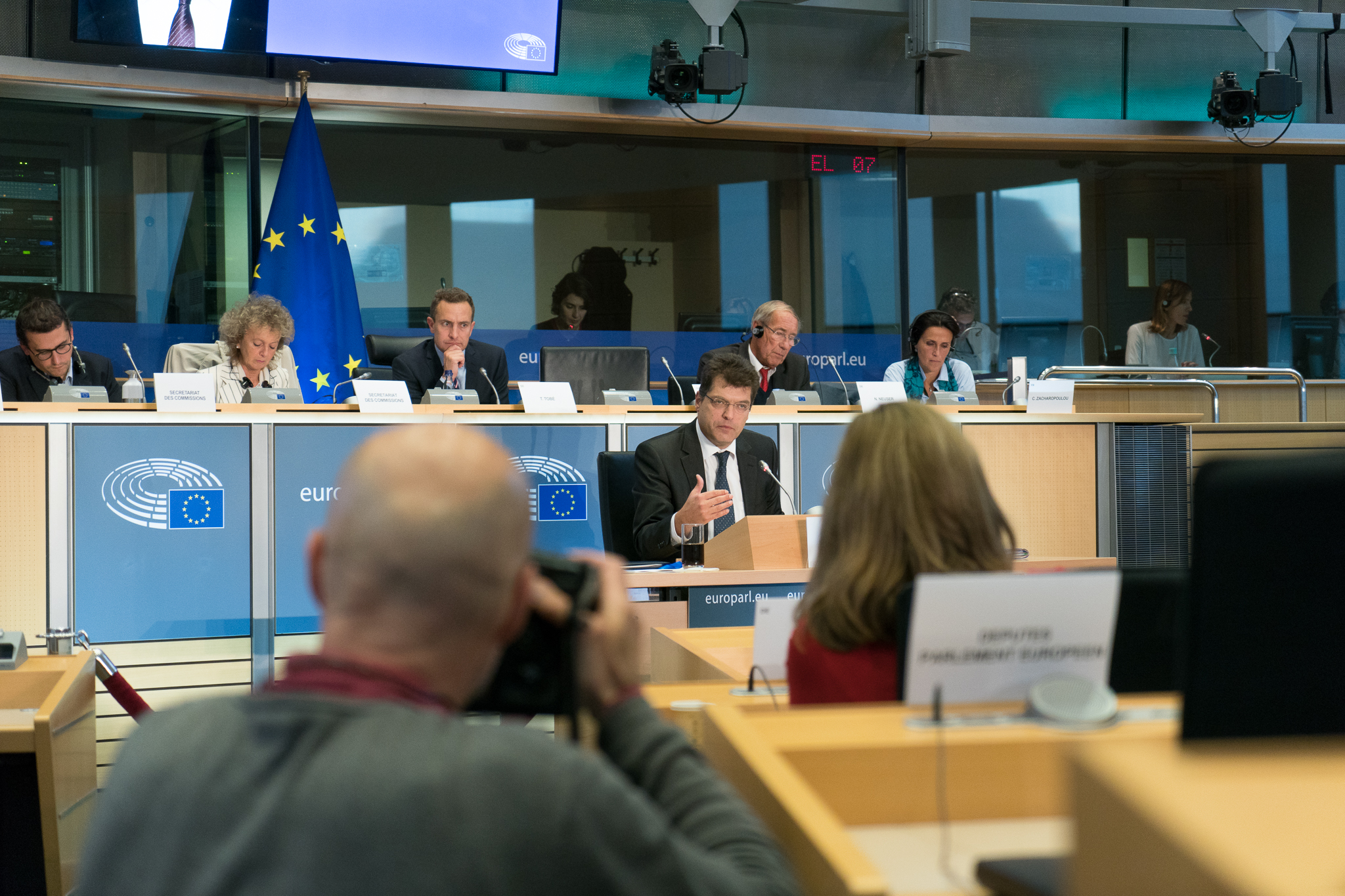 Before the European Parliament can vote the new European Commission led by Ursula von der Leyen into office, parliamentary committees will assess the suitability of commissioners-designate. On 23-26 May, more than 200,000,000 people in 28 EU countries went to the polls to elect members of the European Parliament, giving them a strong democratic mandate, including voting into office the new European Commission and examining the competencies and abilities of its commissioners-designate. Elected members of the European Parliament will also listen to their ideas and will assess their willingness to take concrete actions on the issues that Europeans care about. Each candidate commissioner is invited for a live-streamed, three-hour hearing in front of the committee or committees responsible for their proposed portfolio. The hearings will take place between Monday 30 September and Tuesday 8 October. This photo is free to use under Creative Commons license CC-BY-4.0 and must be credited: "CC-BY-4.0: © European Union 2019 – Source: EP". No model release form if applicable. For bigger HR files please contact: webcom-flickr(AT)